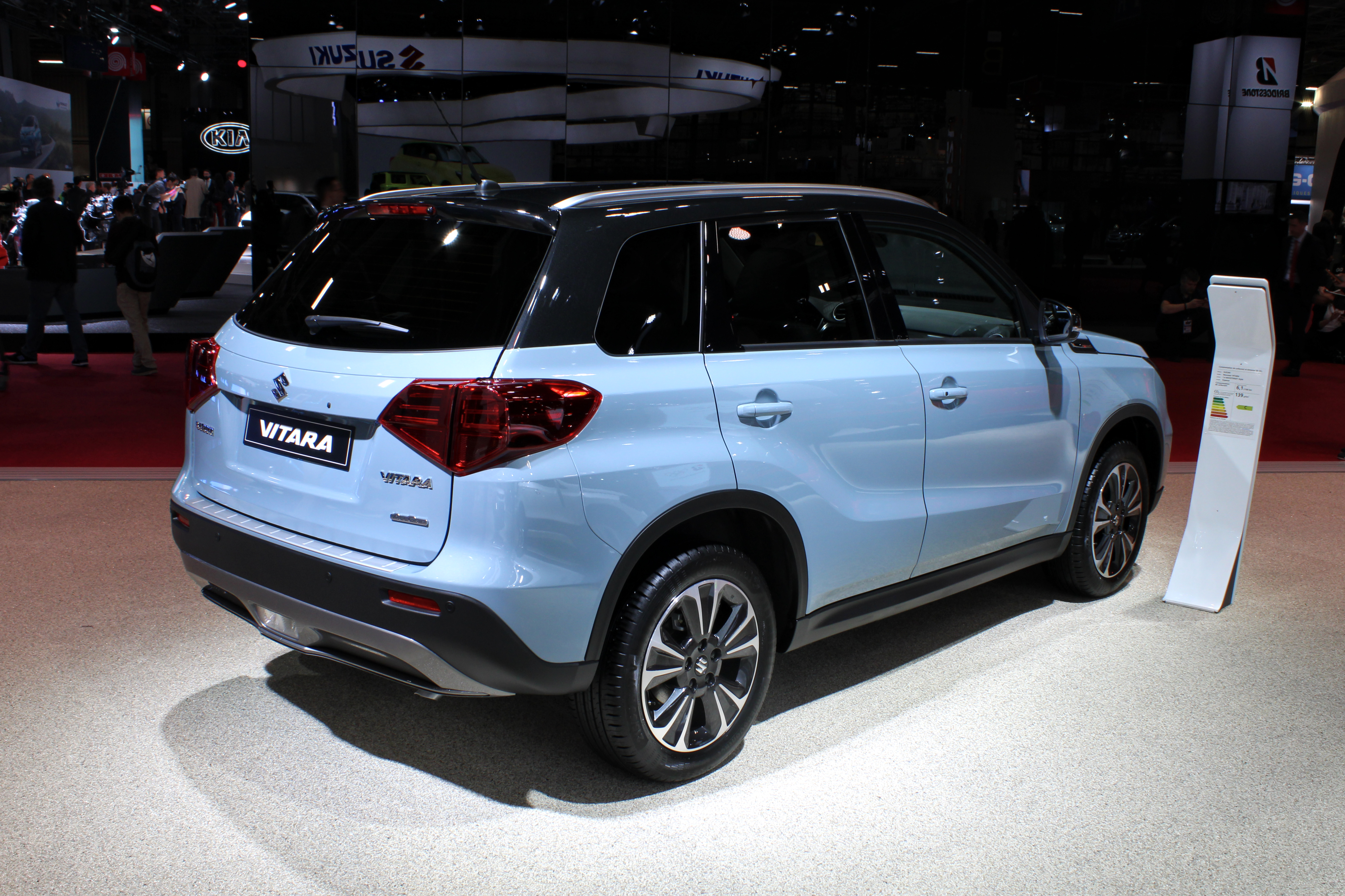 Suzuki Vitara at Paris Motor Show 2018